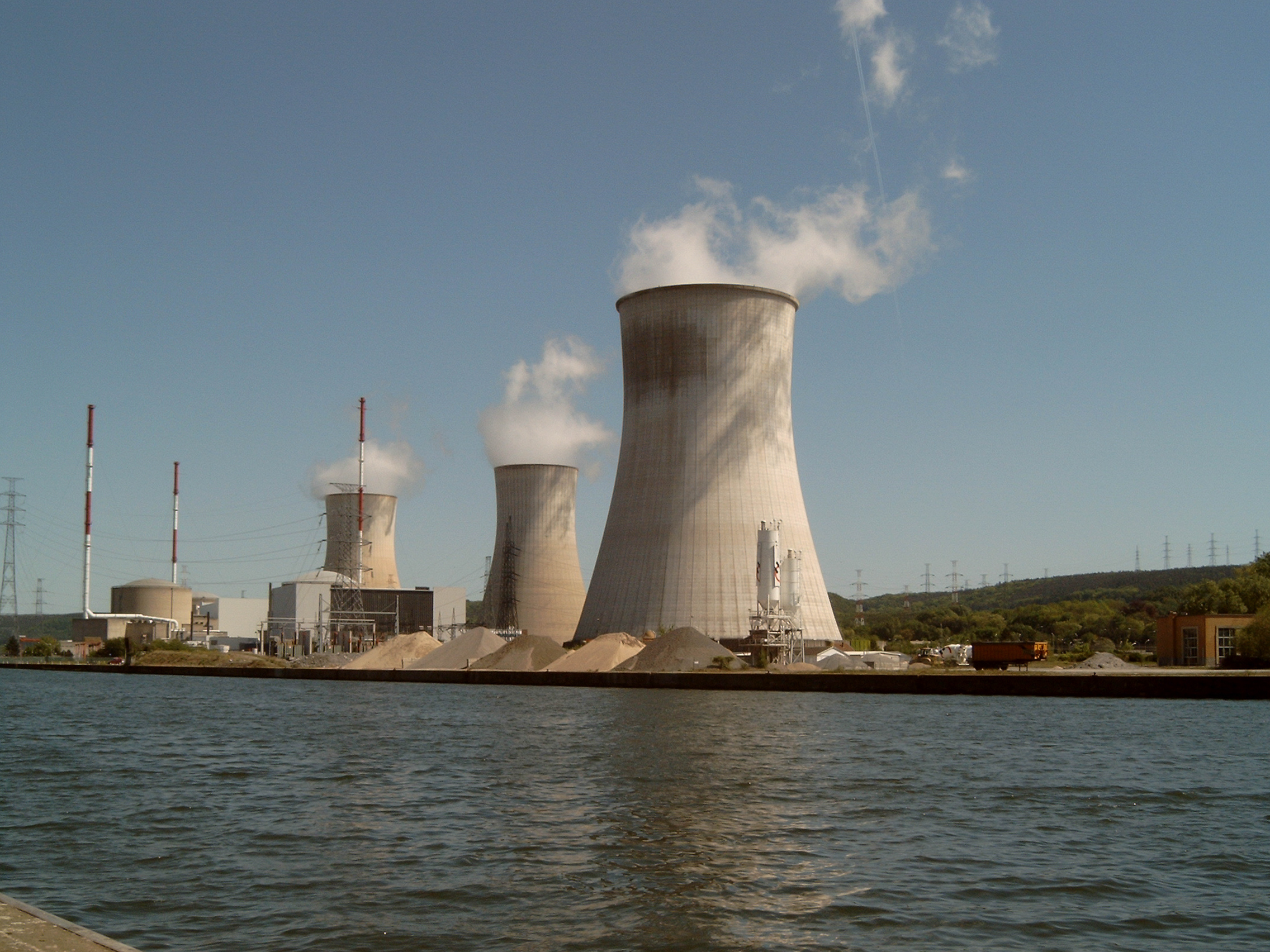 Huy, cooling tower